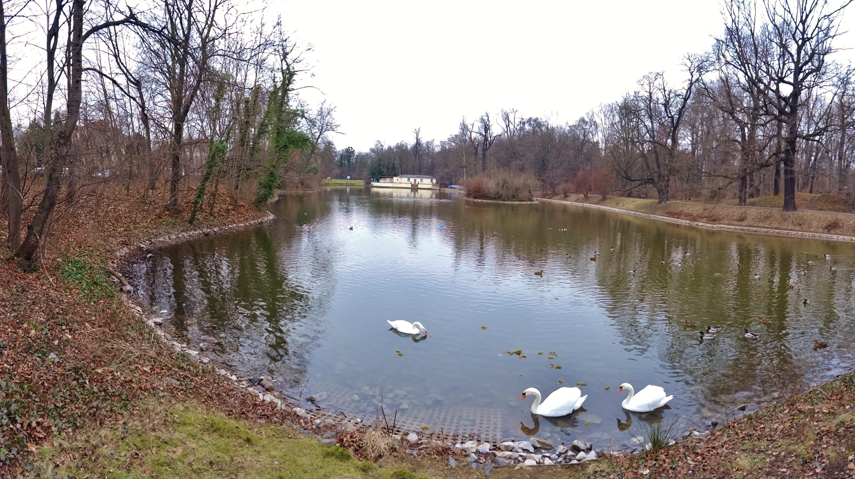 The swans here. They are bothered by the too slowly construction site here which had to be finished since 2 months. They can not find food in the pond.